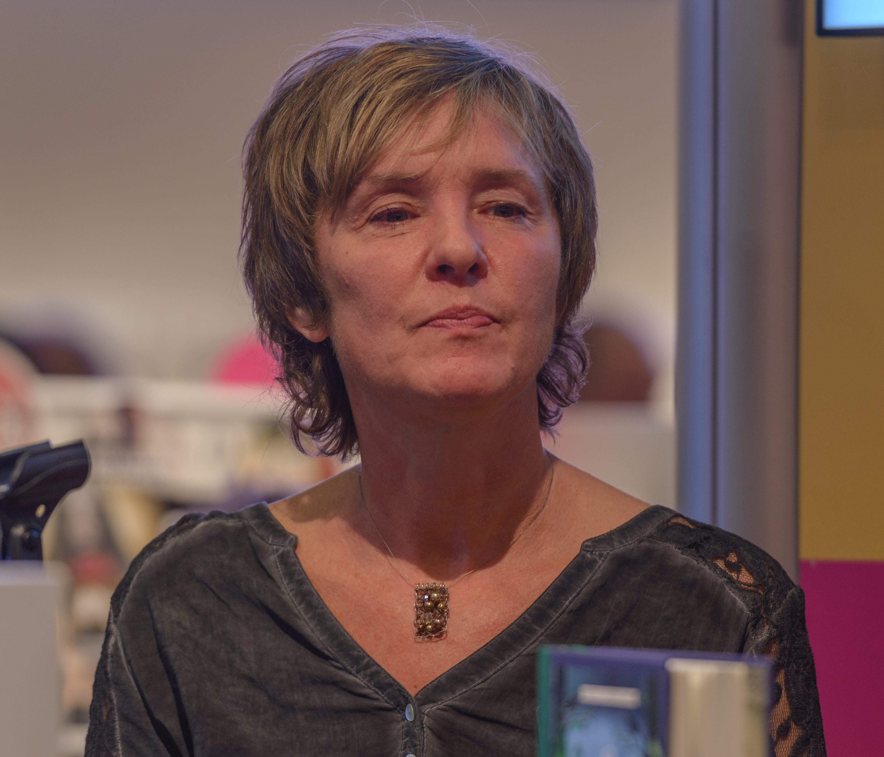 Kerstin Lundberg Hahn at at Göteborg Book Fair 2014.